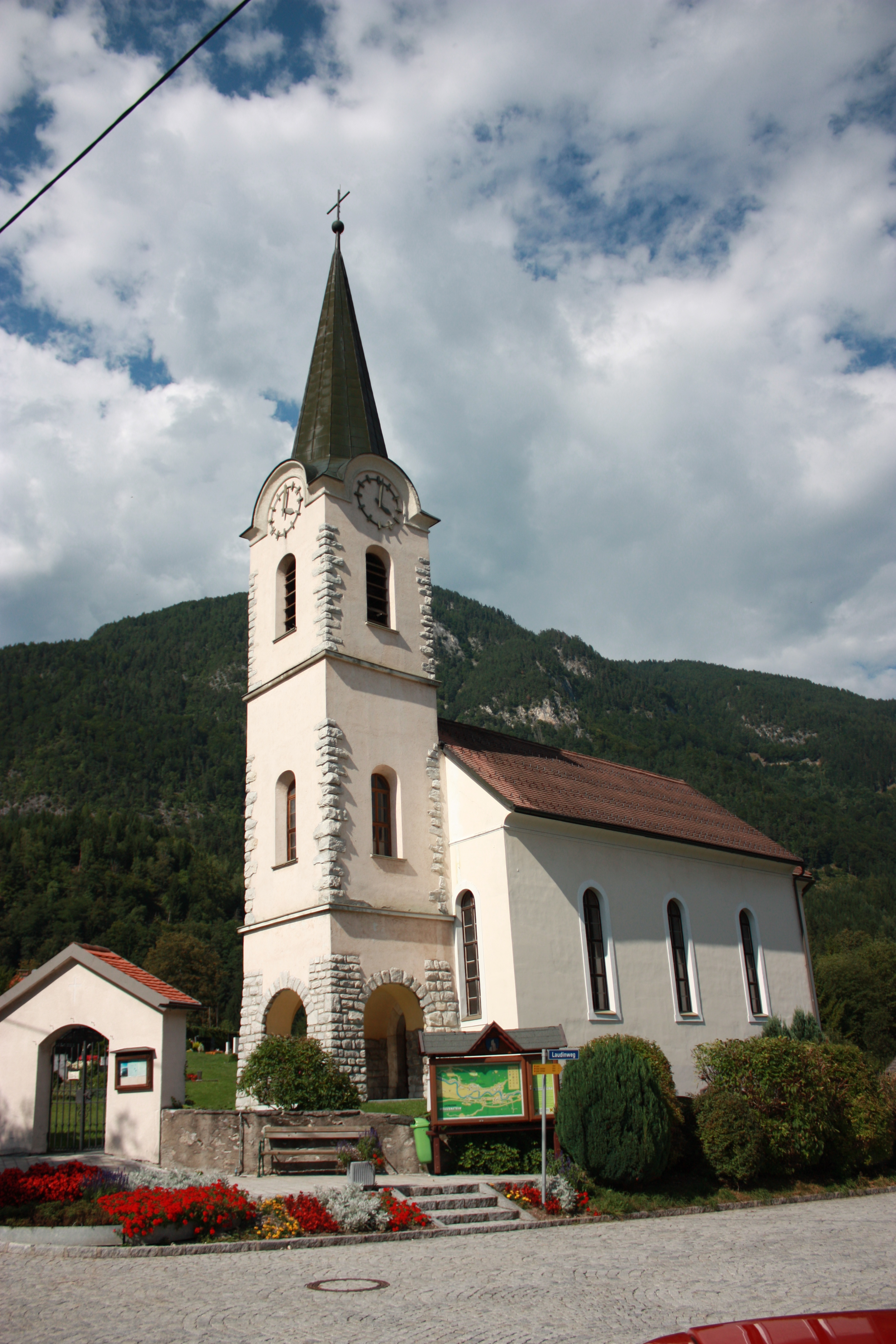 Church Locality: Puch Community:Weißenstein